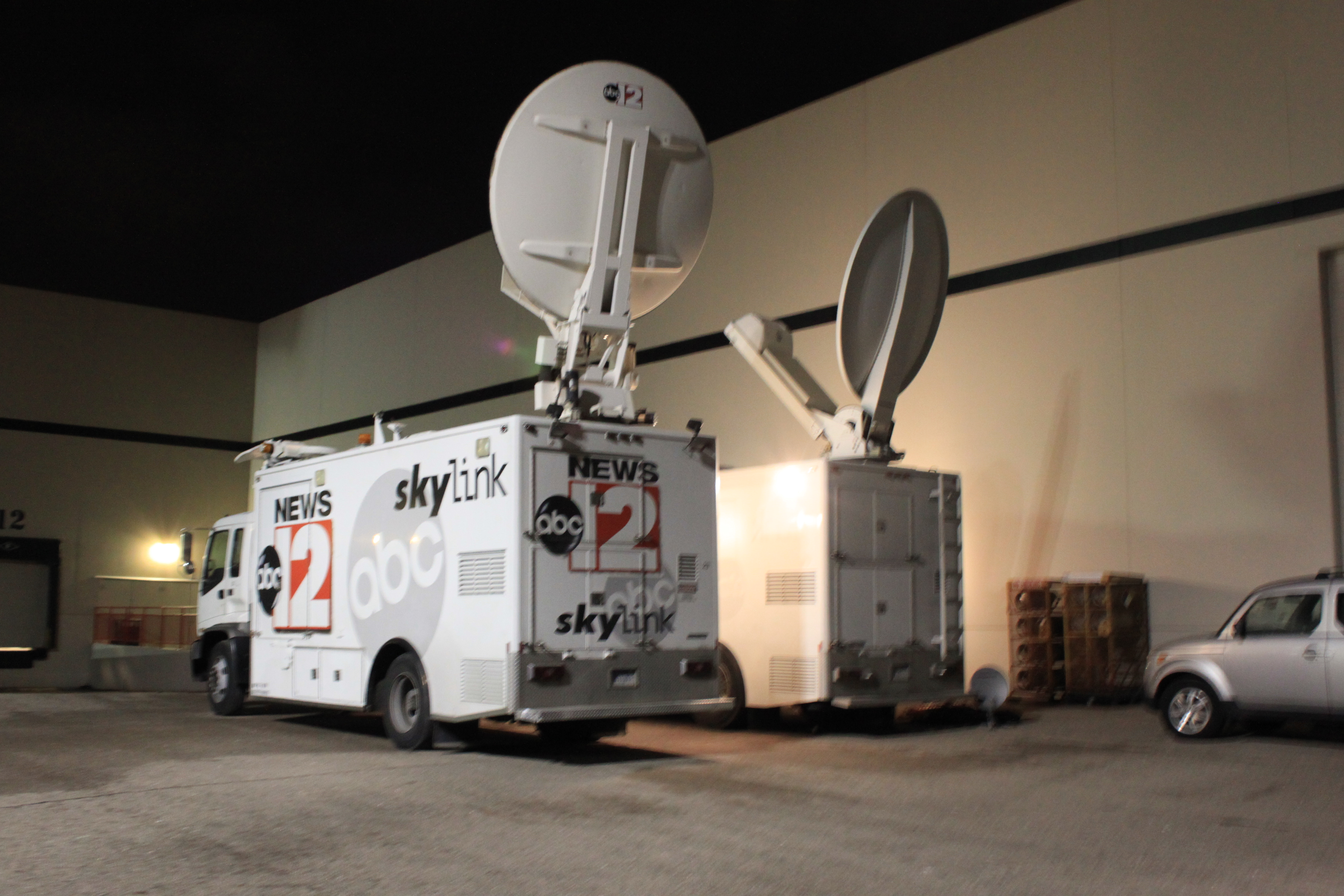 WJRT News (Flint) Skylink trucks, at the Suburban Collection Showplace, 46100 Grand River Avenue, Novi, Michigan, covering the Lincoln Day Dinner that featured Republican presidential candidates Mitt Romney and Rick Santorum as guest speakers.